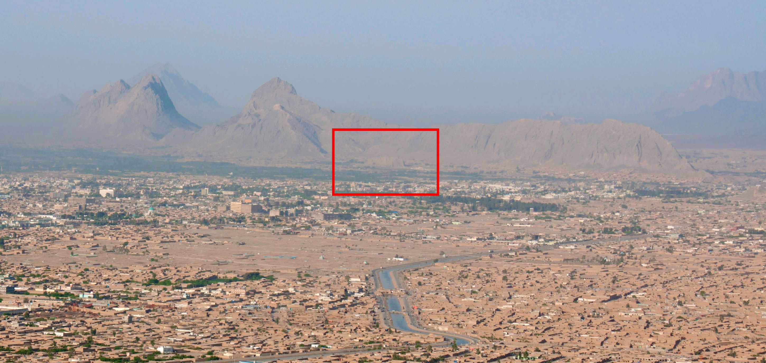 Old Kandahar city on the western outskirts of Kandahar